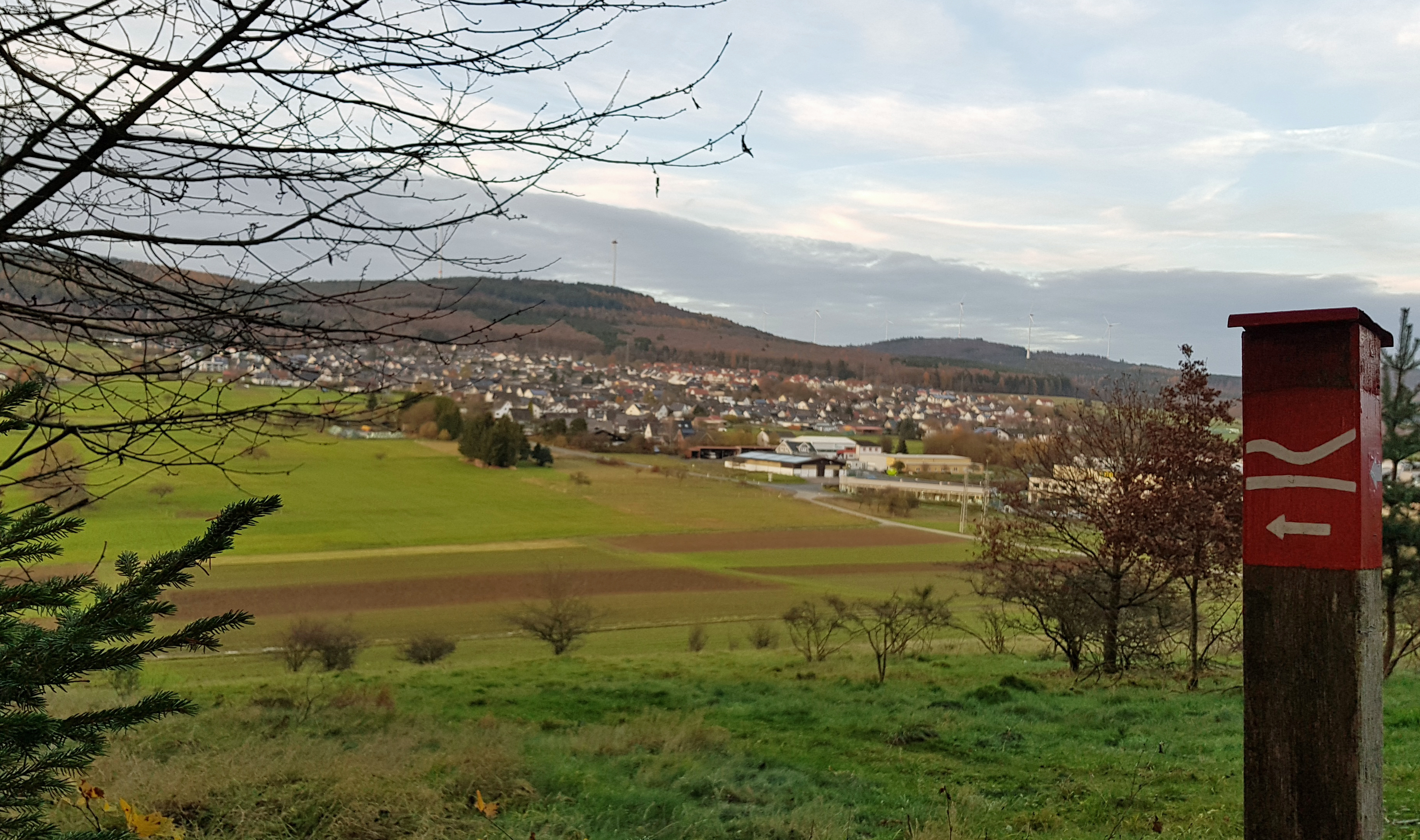 Rothaarsteig mit Blick auf Manderbach